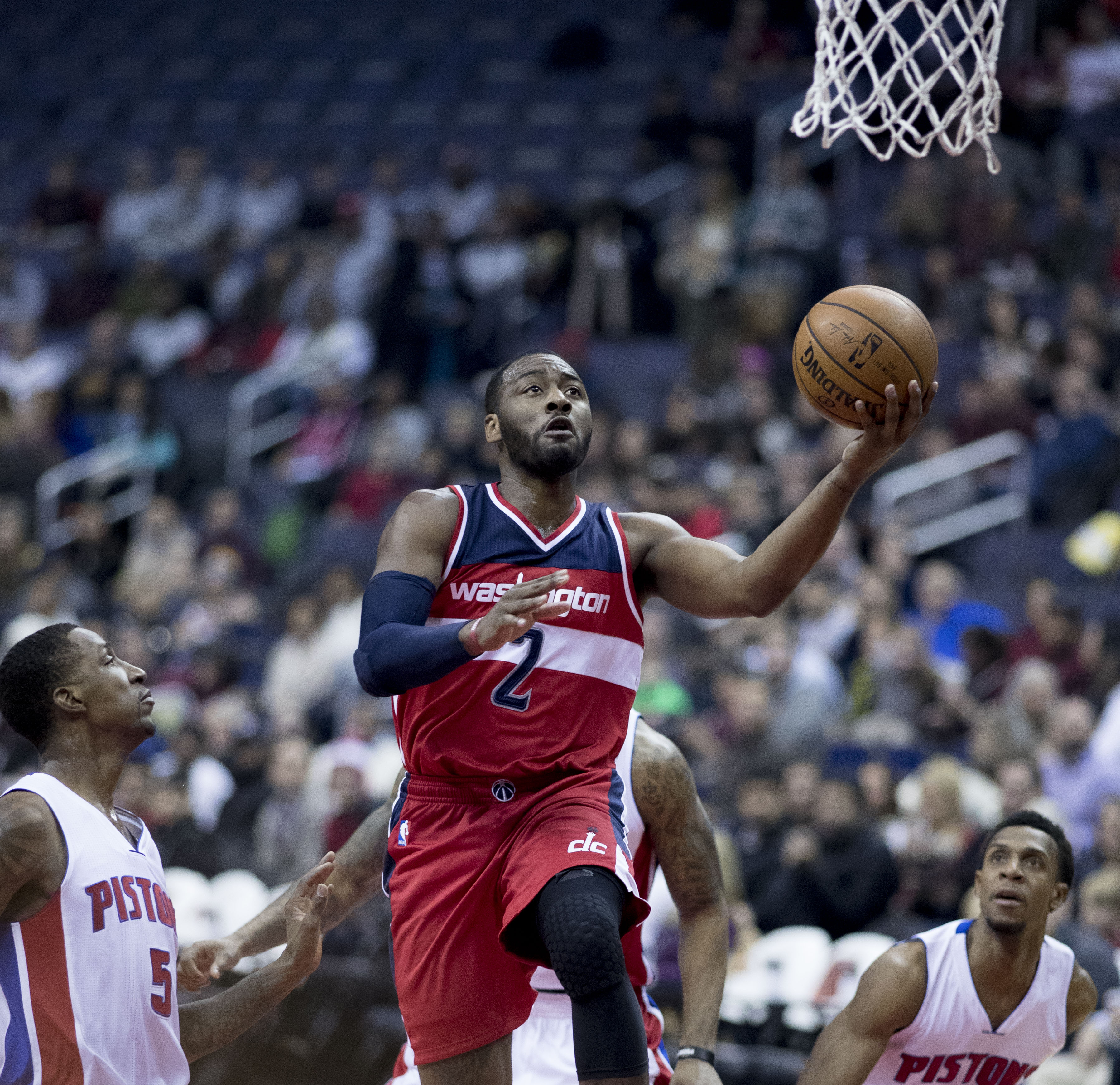 Pistons at Wizards 12/16/16